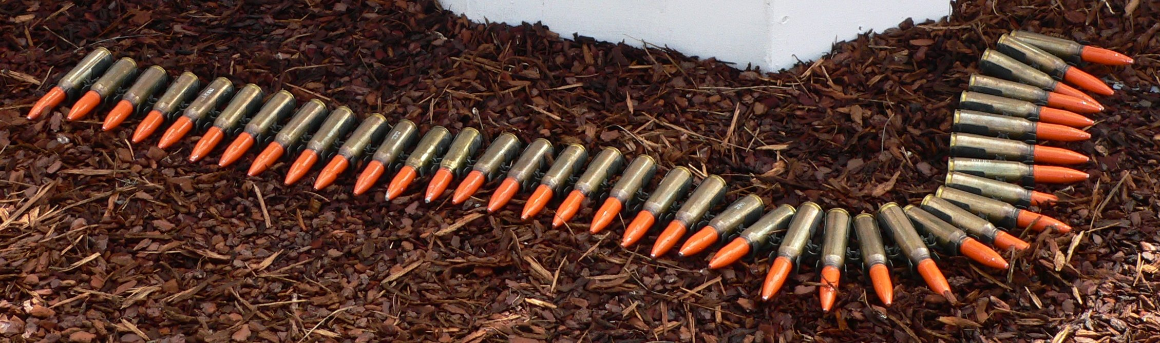 Nexter 30mm rounds (for a THL-30 helicopter gun turret)